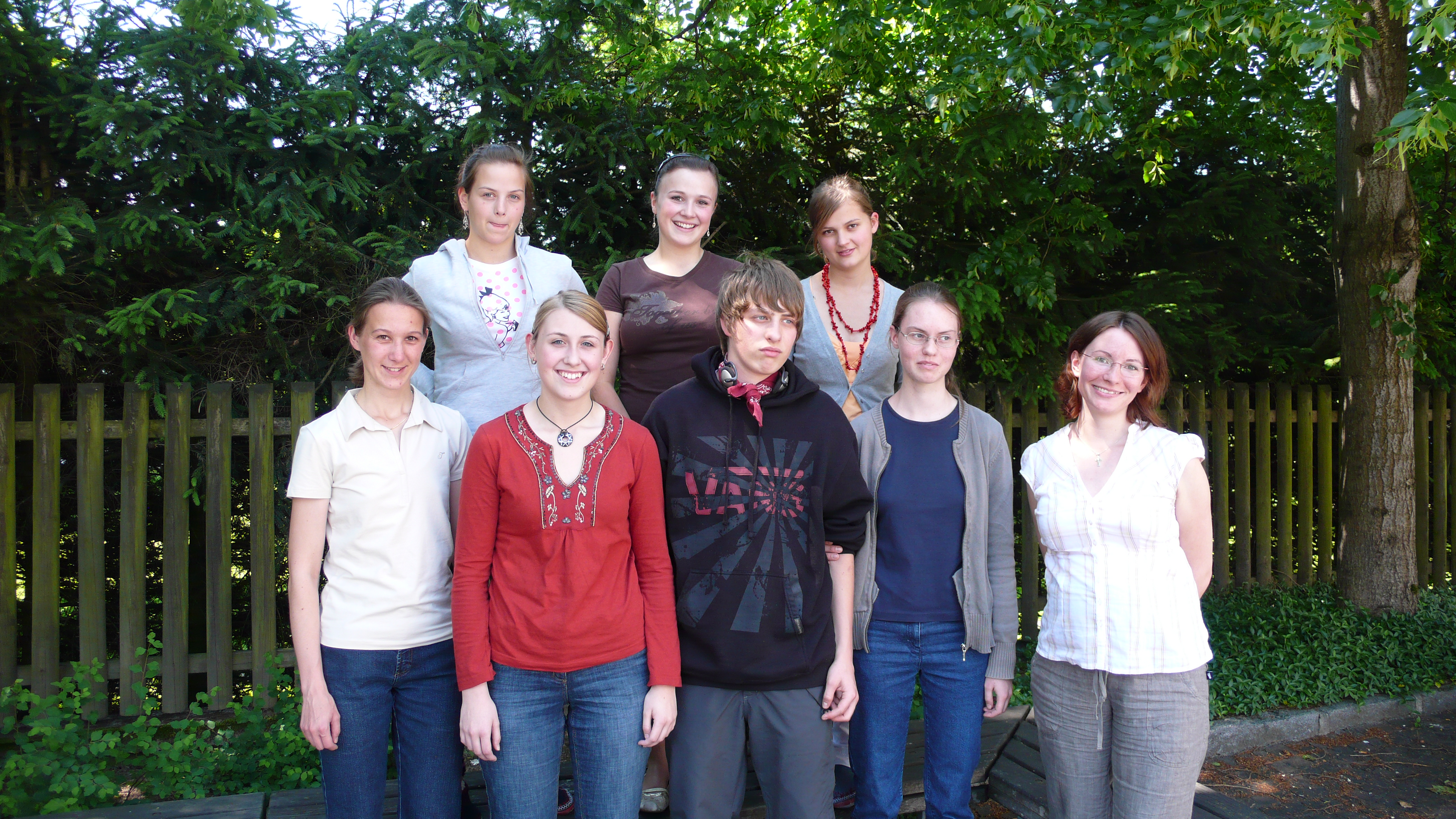 Class Marion Rabl, text translated by the French group of the local Grammar School, the BG/BORG